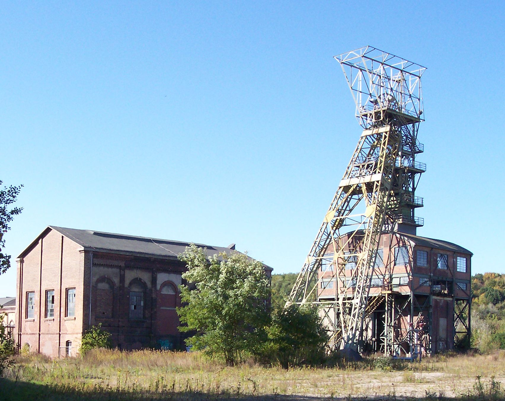 Oer-Erkenschwick Zeche Blumenthal Haard Fördergerüst